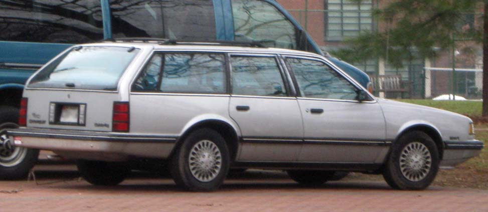 1987-1990 Chevrolet Celebrity photographed in Annapolis, Maryland, USA.